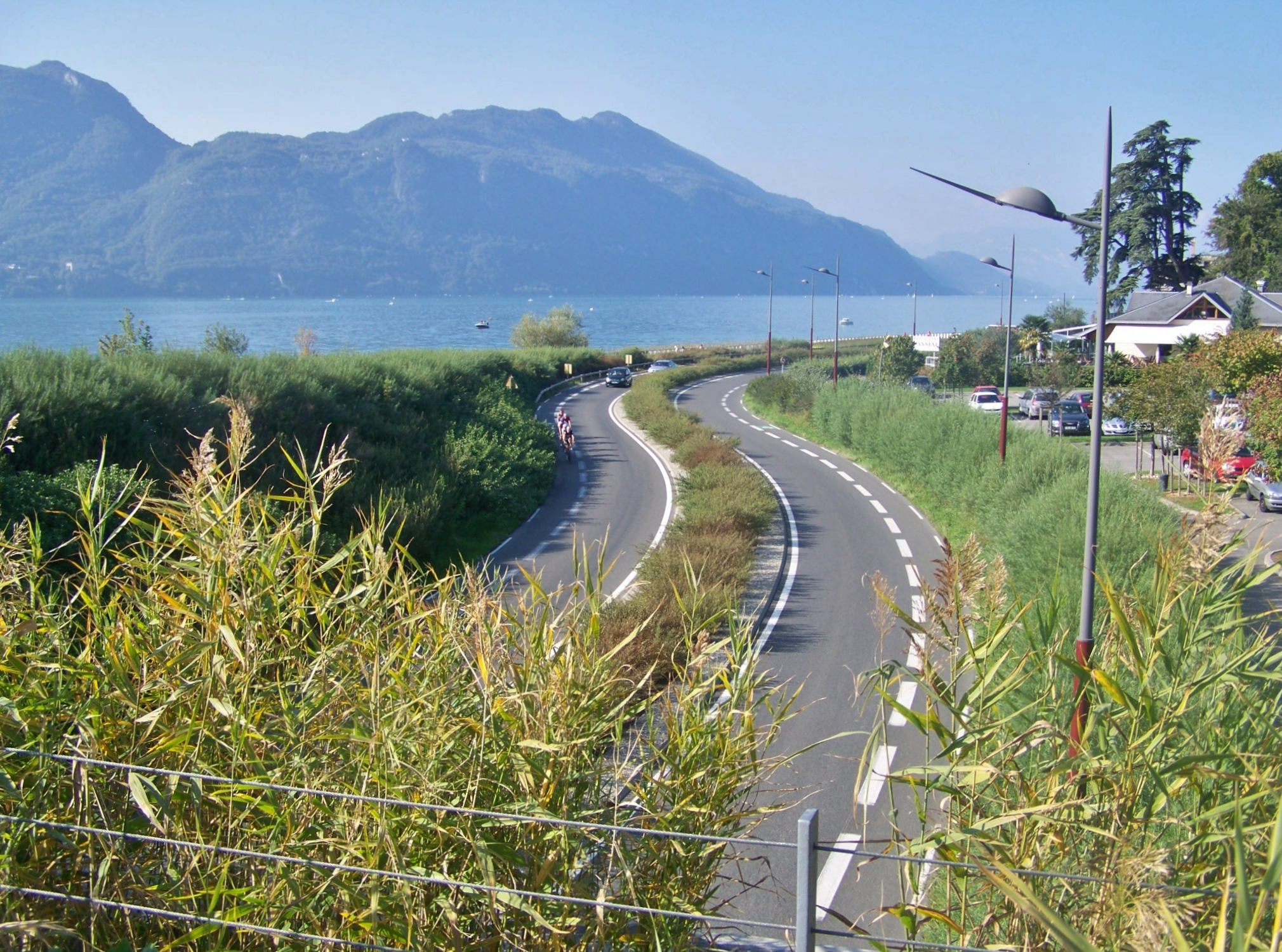 Sight of RD 1201 road to Aix-les-Bains and the lac du Bourget lake, at the Lido beach (Tresserve) in Savoie.